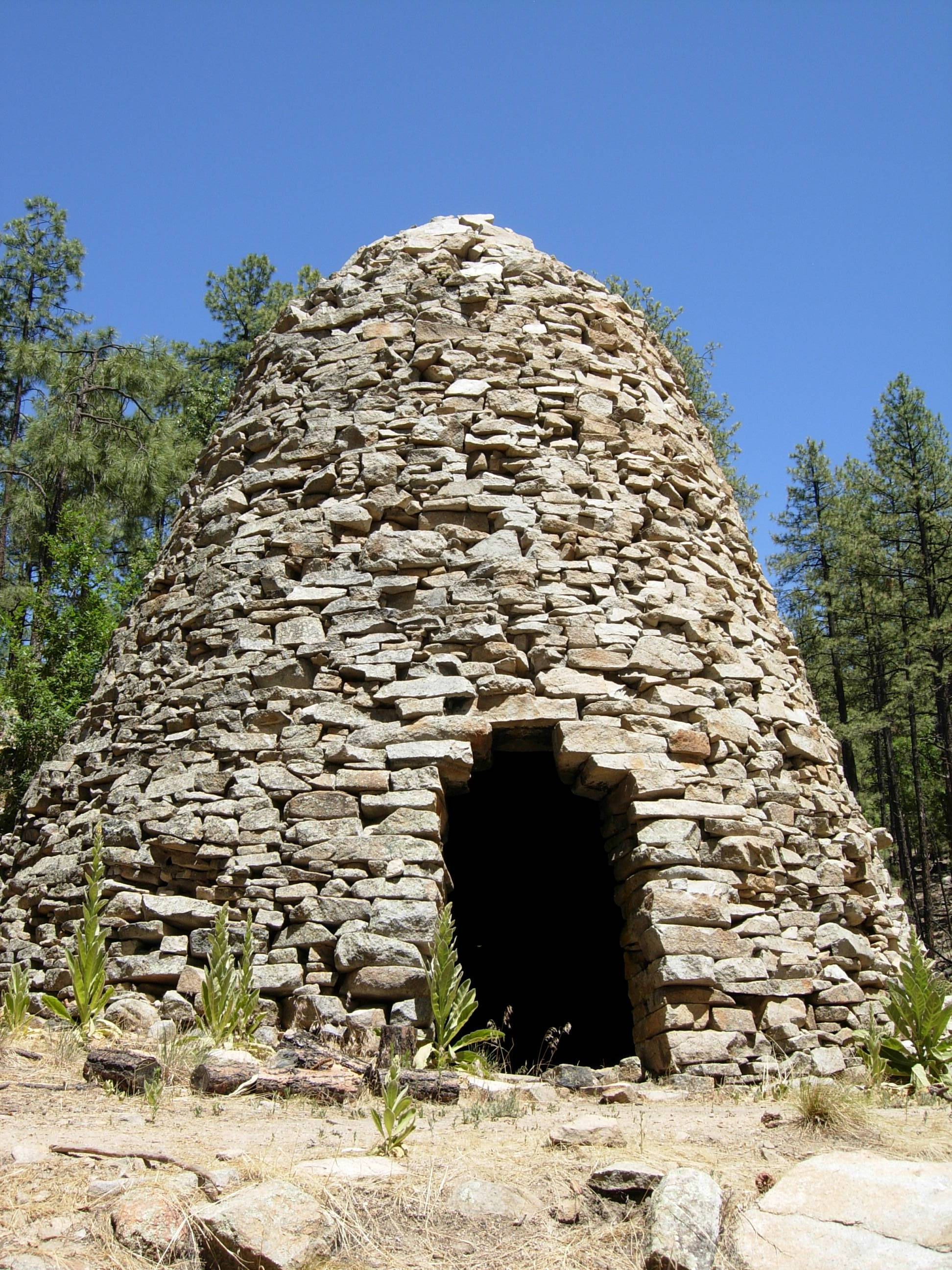 A charcoal kiln that is no longer used near Walker, Arizona, USA.